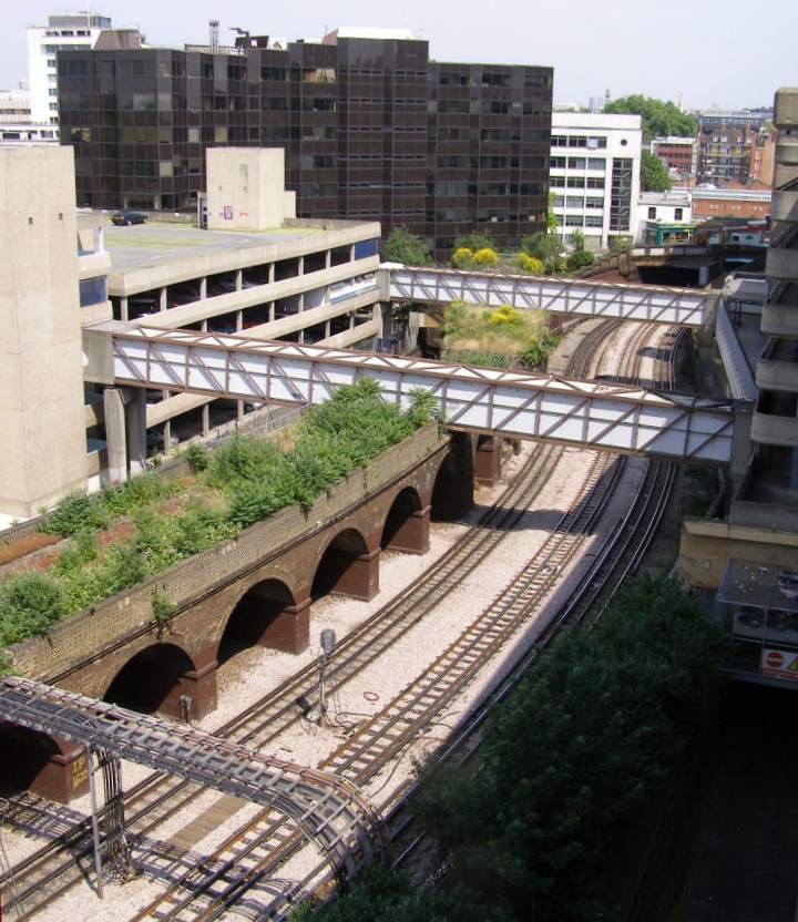 Tracks to the east of Ravenscourt Park station on approach to Hammersmith station showing the abandoned viaduct that used to connect to Grove Road station